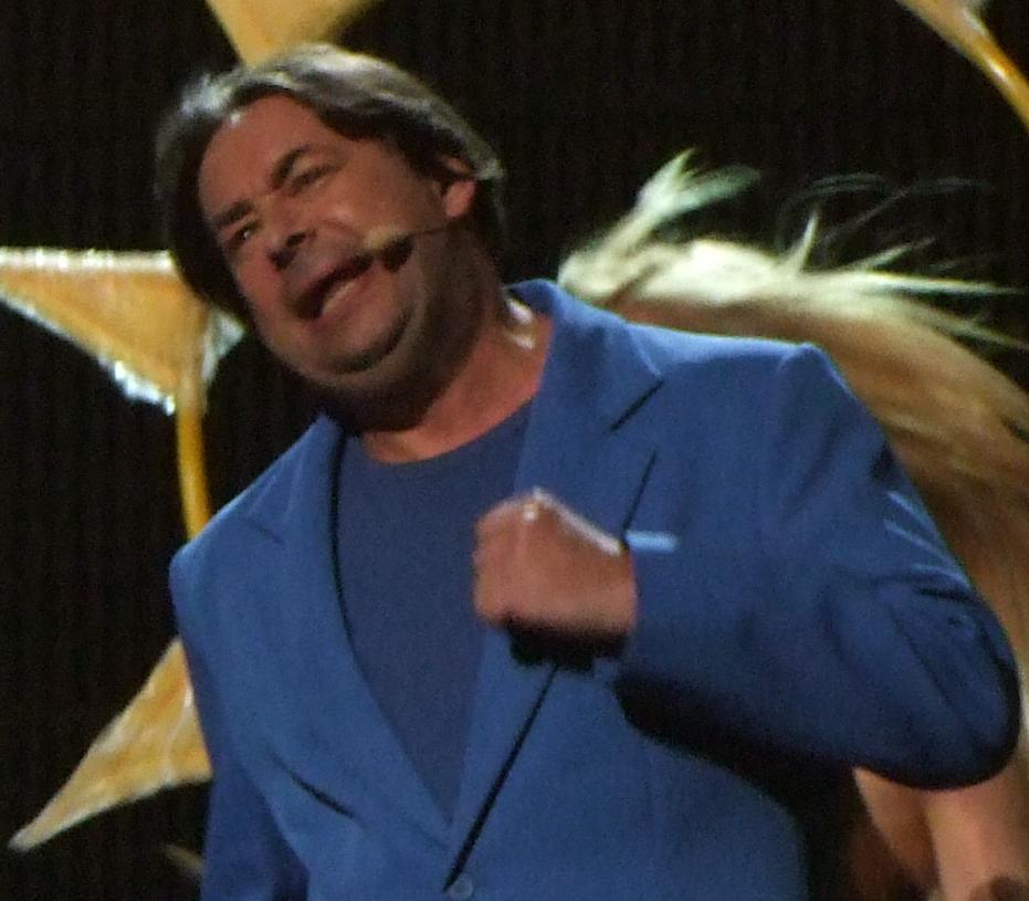 Estonian actor and humourist Peeter Oja performing in Eurovision Song Contest 2008 with Kreisiraadio - Leto svet